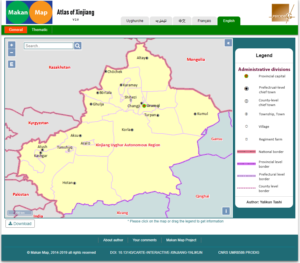 Screenshot of Makan Map